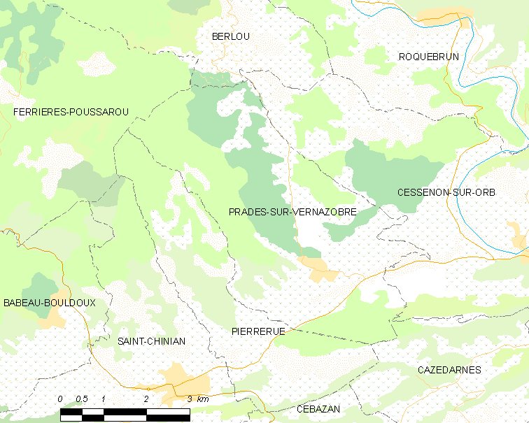 Map commune FR insee code 34218.png - Prades-sur-Vernazobre